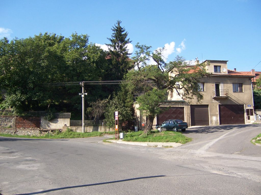 Vodochody